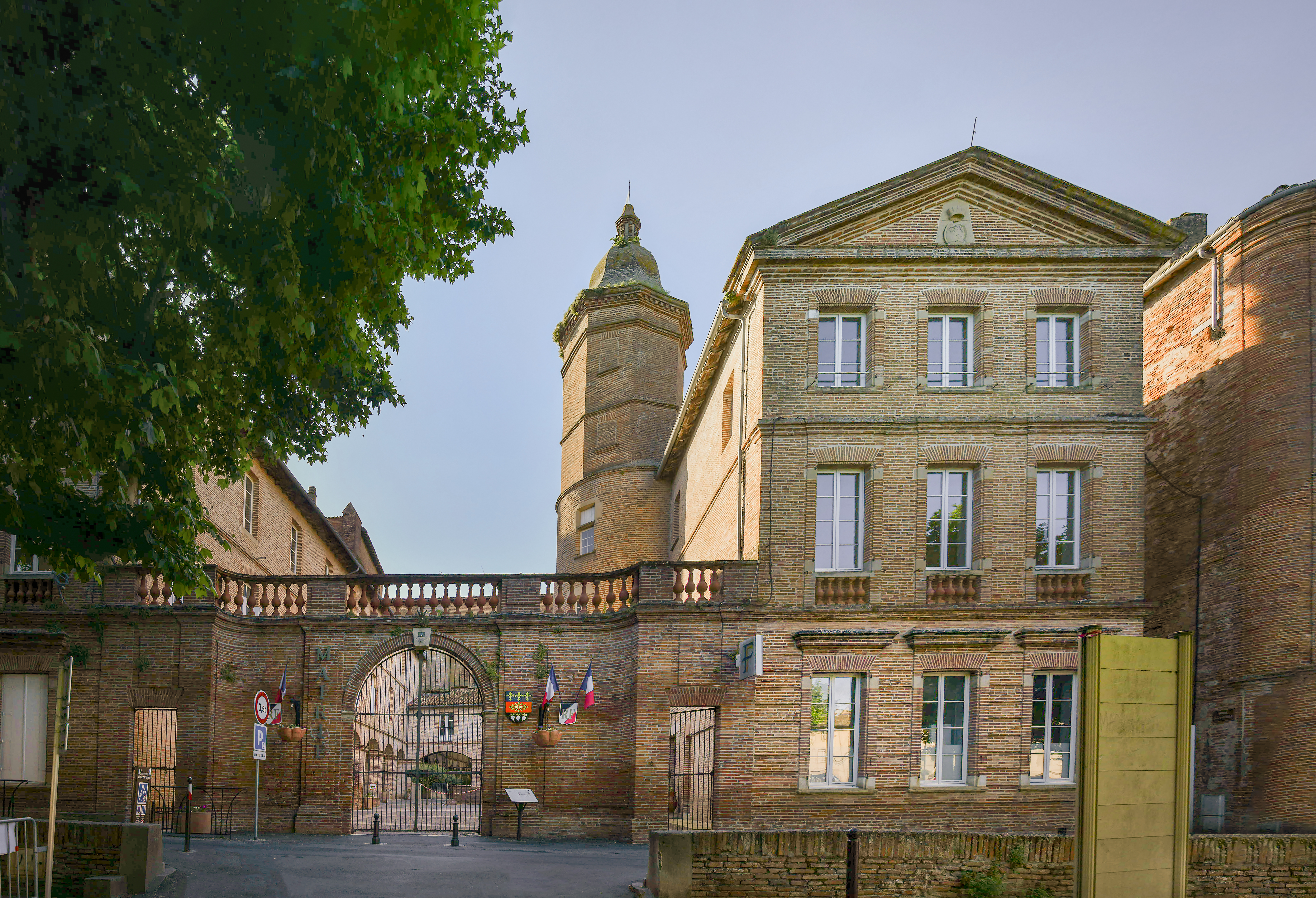 Town hall of Rabastens